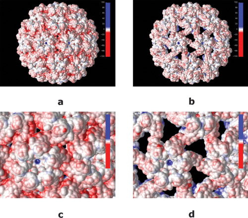 A. Cowpea Chlorotic Mottle Virus in Acidic Conditions B. Cowpea Chlorotic Mottle Virus in pH Increase Conditions